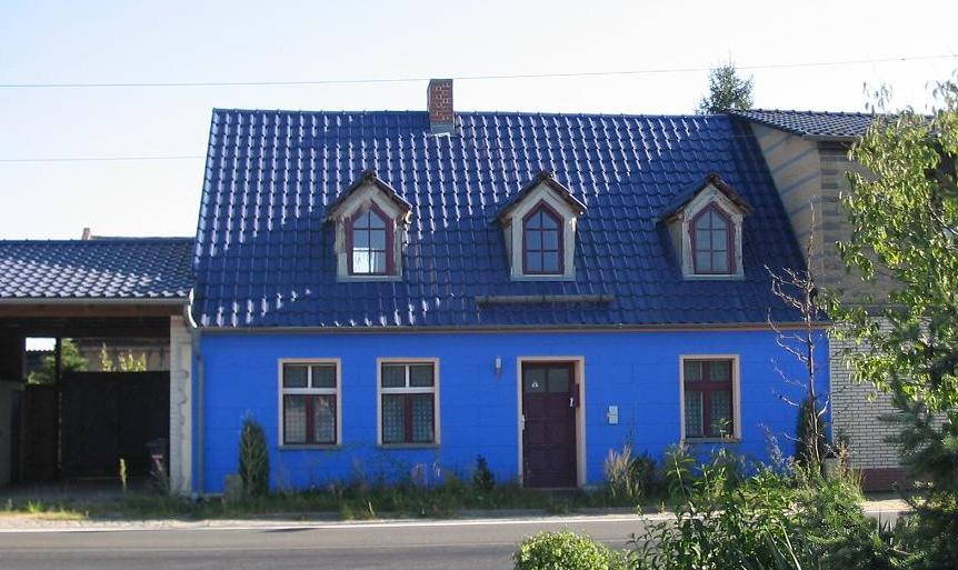 Building Dorfstraße (german for villagestreet ) No. 38 in Gömnigk. The village Gömnigk is a part of the town Brück in the district Potsdam Mittelmark, state Brandenburg, Germany, at the border to the natural preserve Naturpark Hoher Fläming.